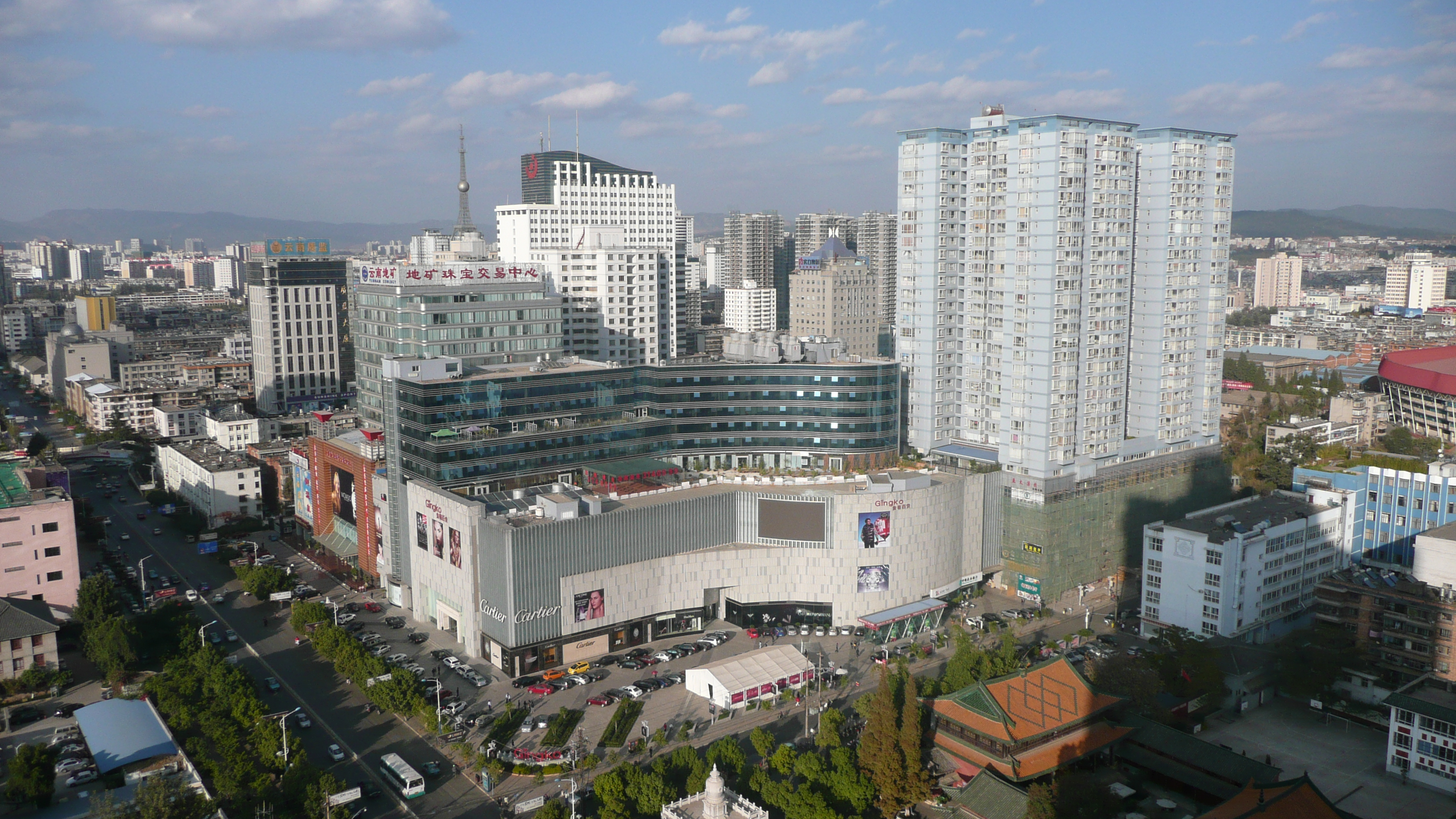 Kunming - Capital of the Chinese province Yunnan